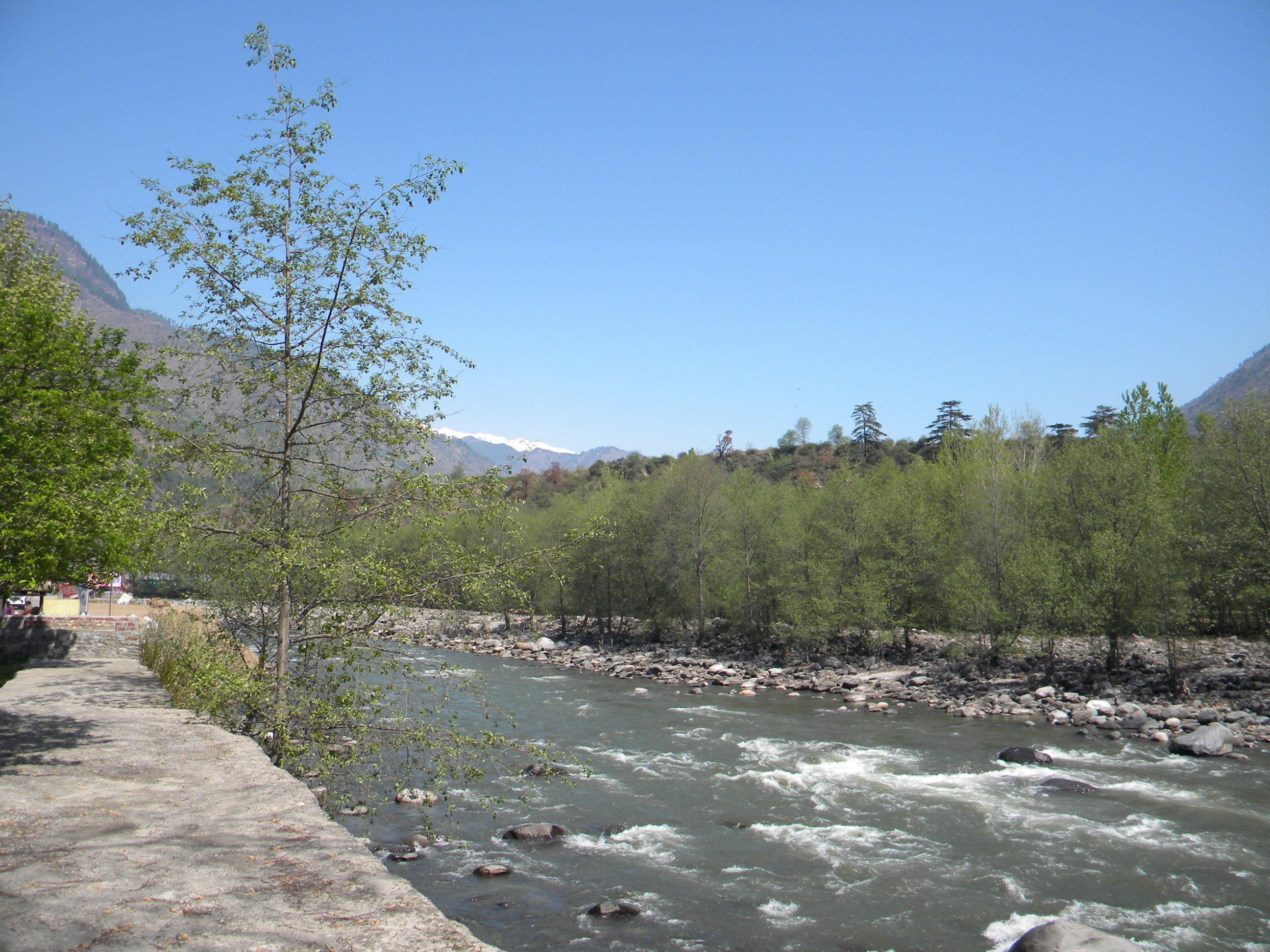 Beas river flowing through Kullu in Himachal Pradesh